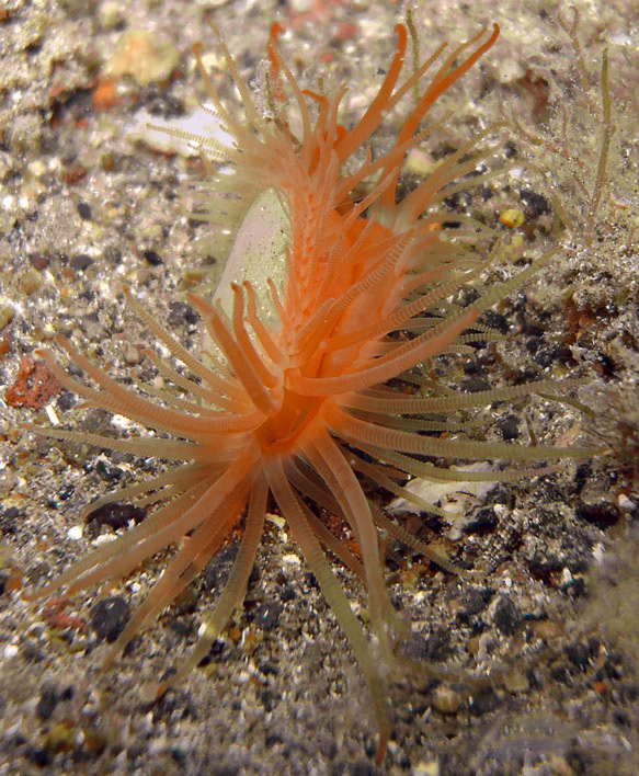 Limaria hians file shell clam